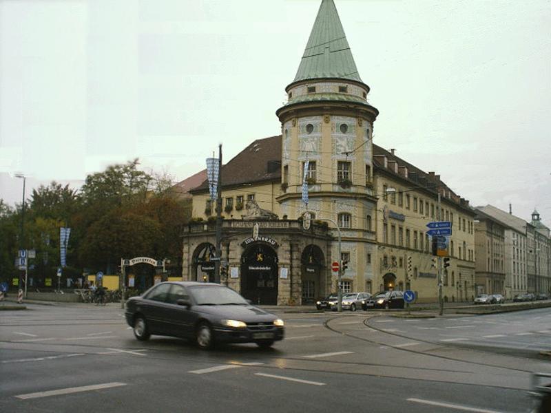 The Löwenbräu Brewery in Munich.